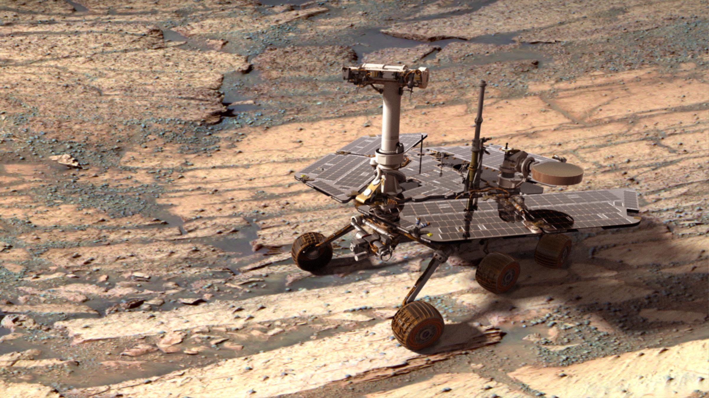 This synthetic image of NASA's Opportunity Mars Exploration Rover inside Endurance Crater was produced using "Virtual Presence in Space" technology. Developed at NASA's Jet Propulsion Laboratory, Pasadena, Calif., this technology combines visualization and image-processing tools with Hollywood-style special effects. The image was created using a photorealistic model of the rover and a false-color mosaic taken on sol 134 (June 9, 2004) by Opportunity's panoramic camera with the 750-, 530- and 430-nanometer filters. The size of the rover in the image is approximately correct and was based on the size of other features in the image. Because this synthesis provides viewers with a sense of their own "virtual presence" (as if they were there themselves), such views can be useful to mission teams by enhancing perspective and a sense of scale.